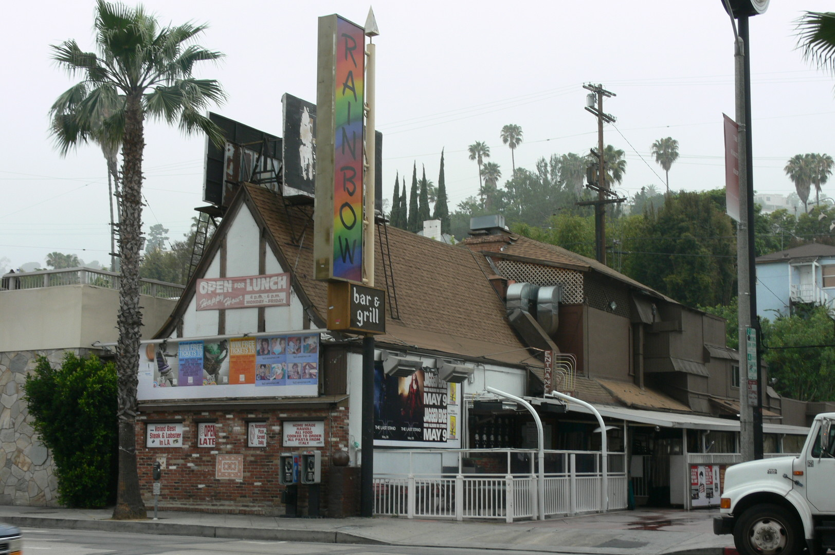 The Rainbow Bar & Grill, 9015 W Sunset Blvd., W. Hollywood, CA. Photograph by Mike Dillon, May 10, 2006.